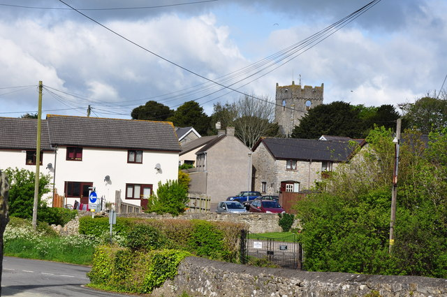 St Athan church tower, viewed from the outskirts